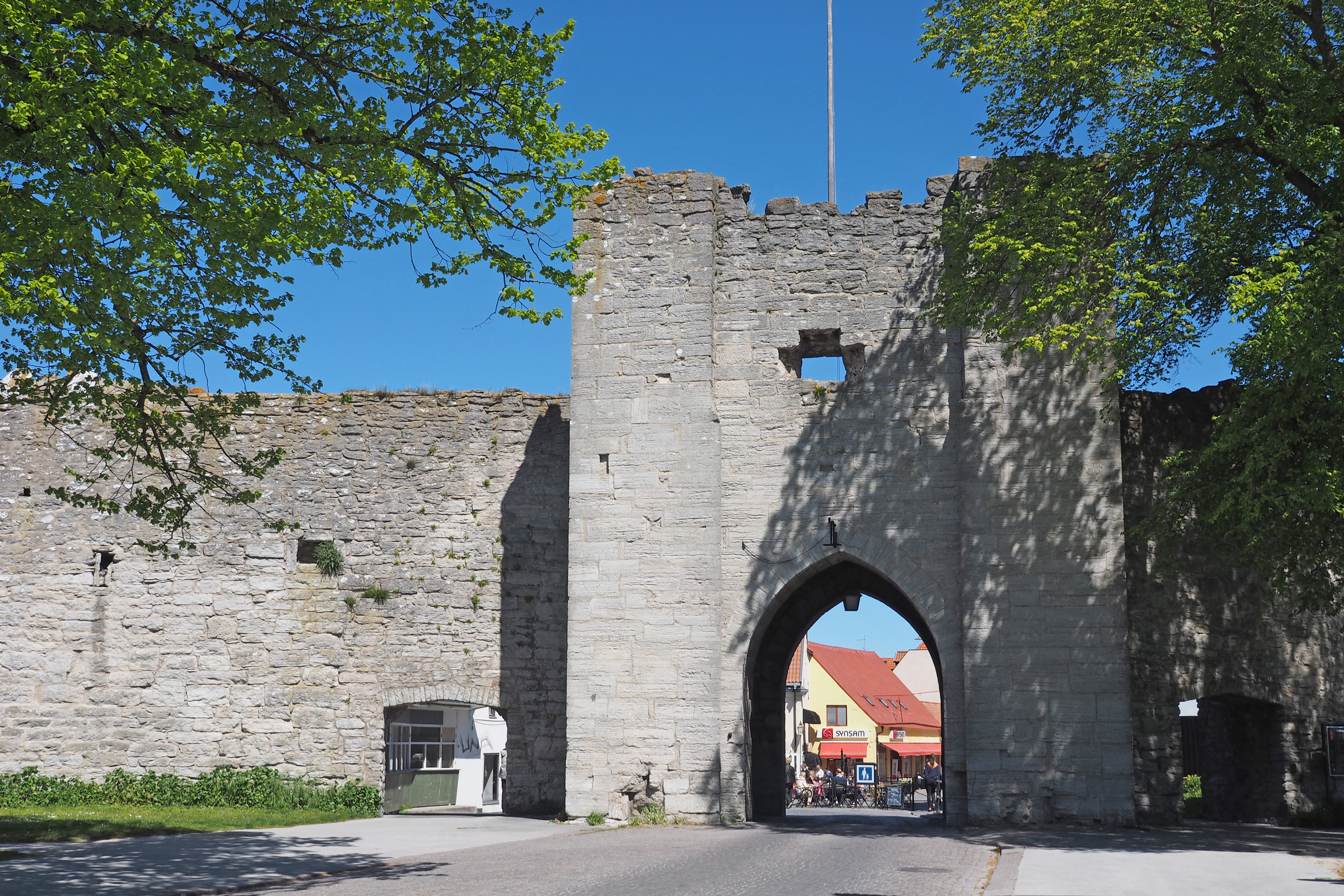 South Gate in the Town Wall Visby